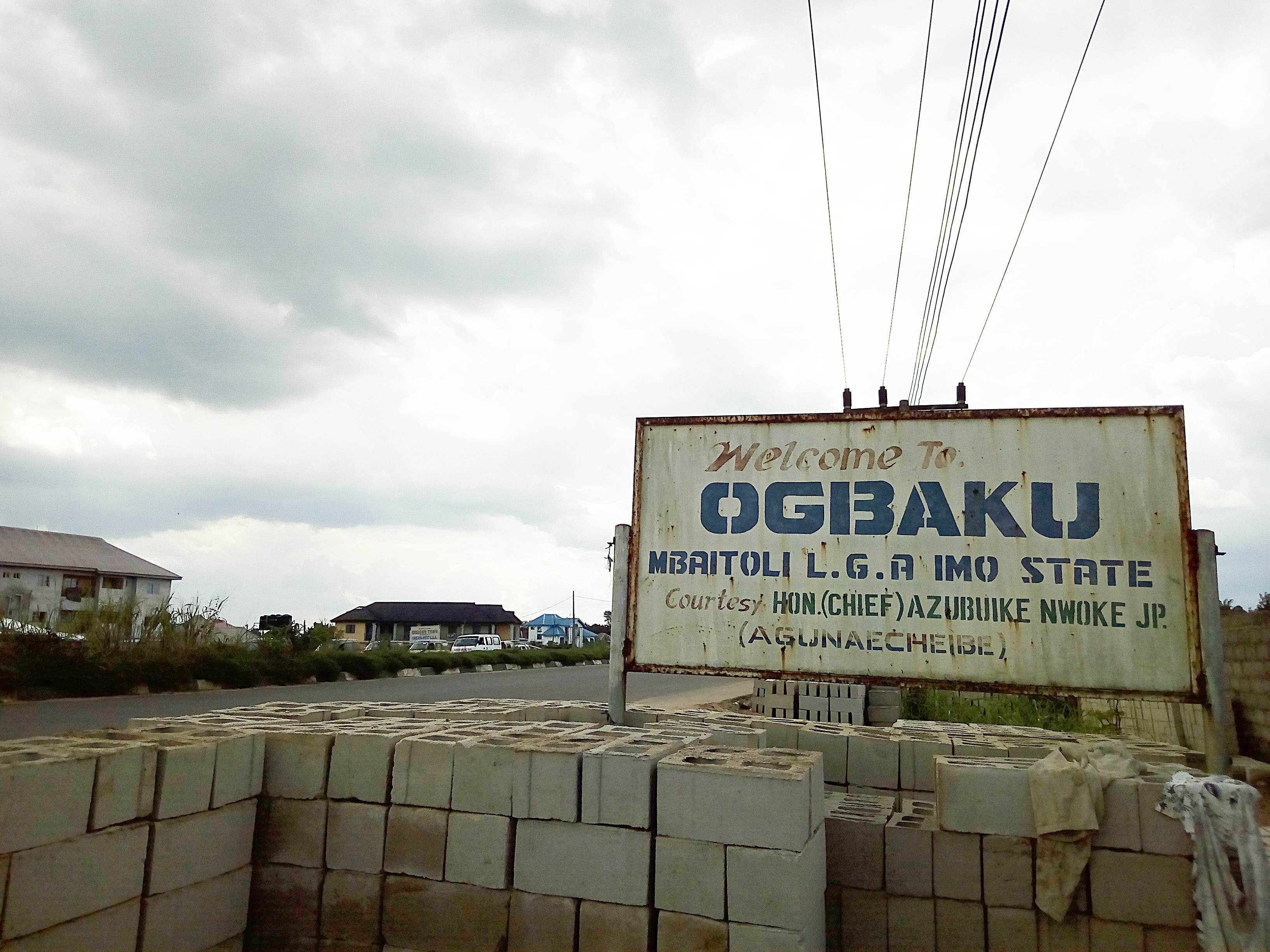 Welcome to Ogbaku sign post along owerri onitsha express road